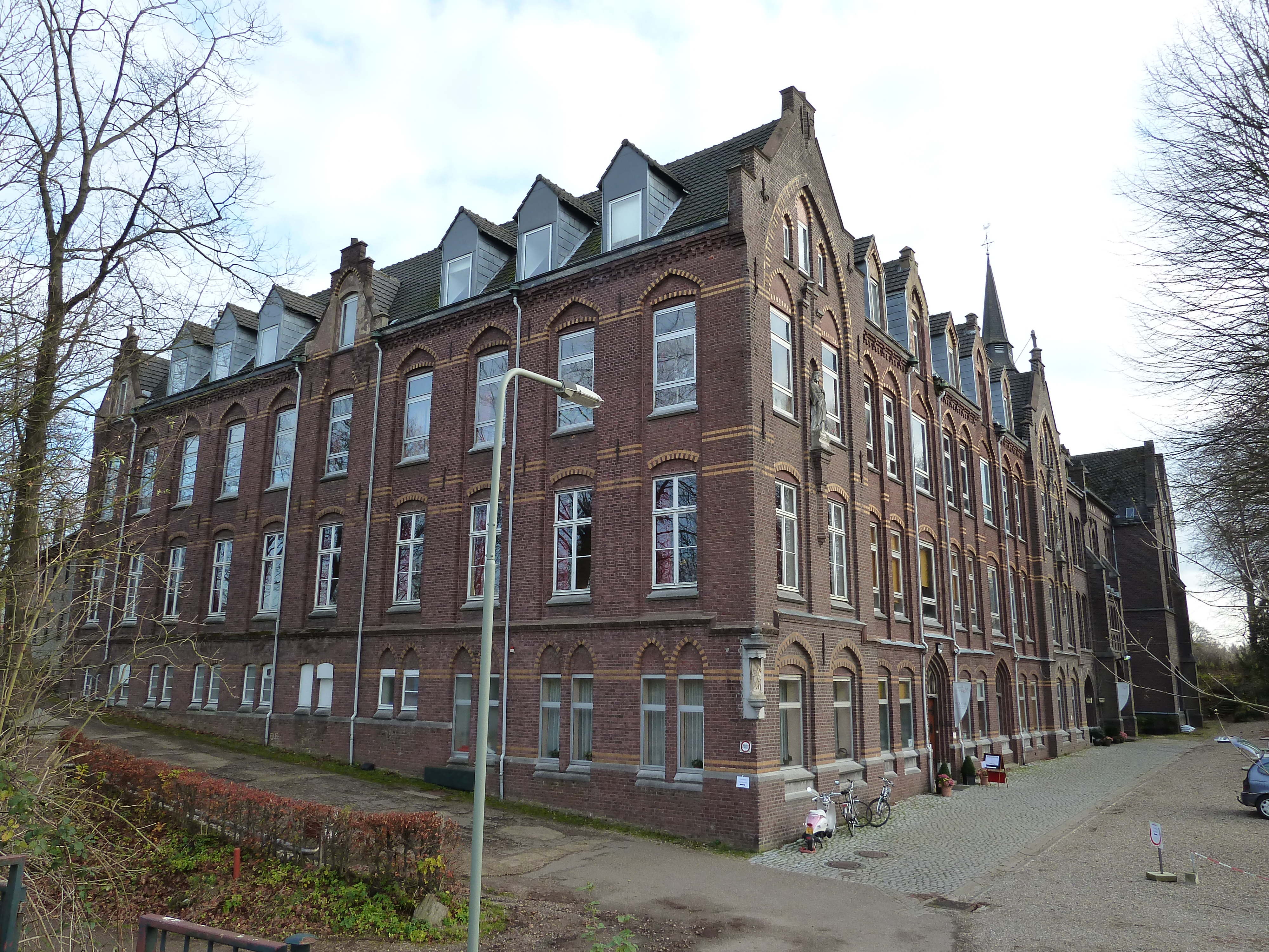 Huize Damiaan, Pater Damiaanstraat 38, Simpelveld, Limburg, the Netherlands